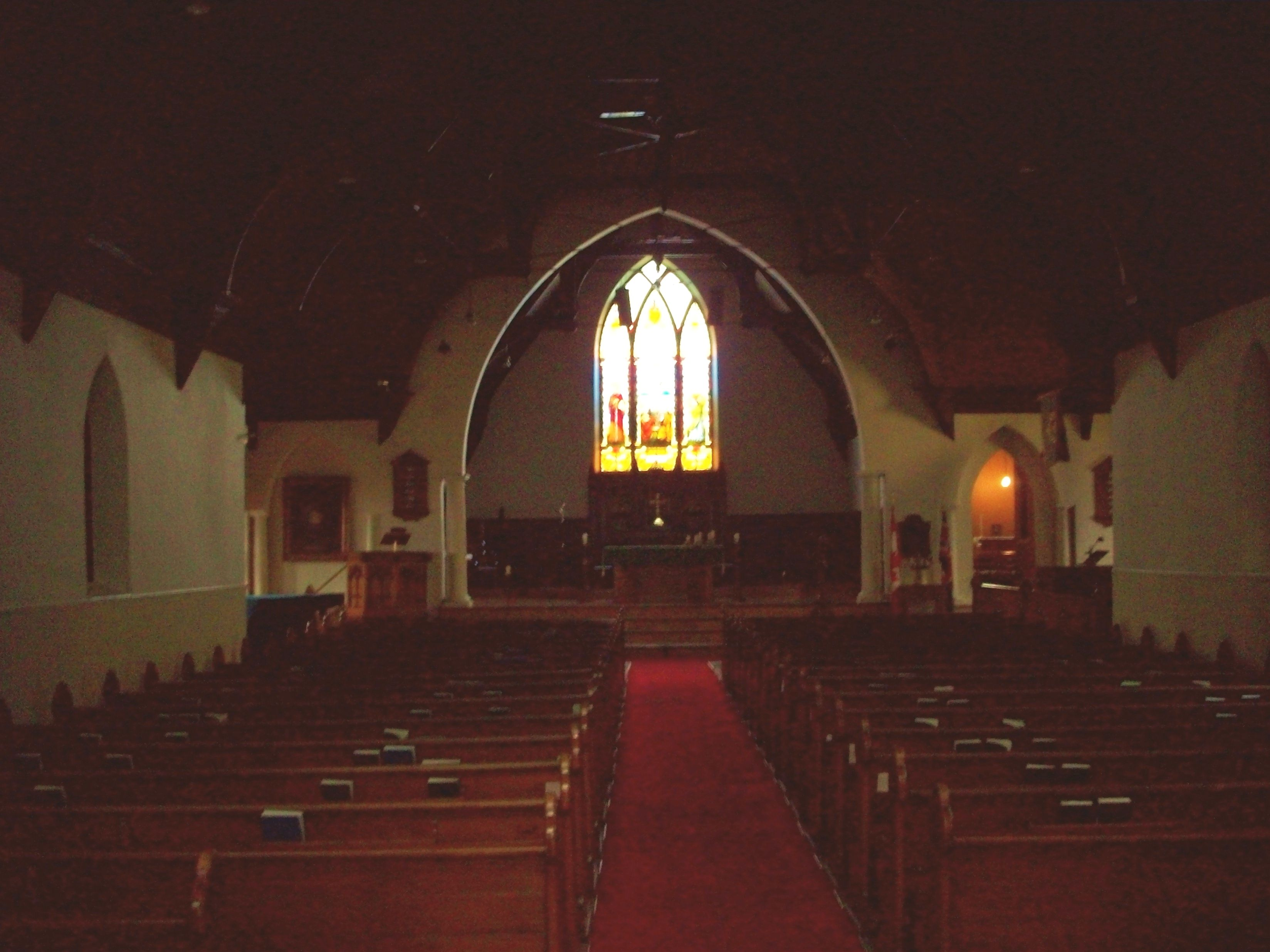 St Pauls Regina